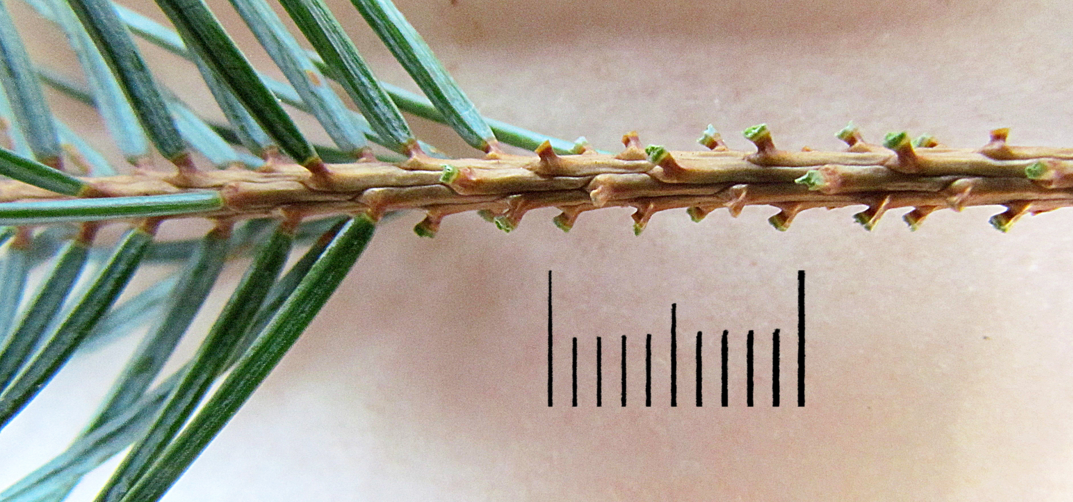 Sterigmas of spruce twig